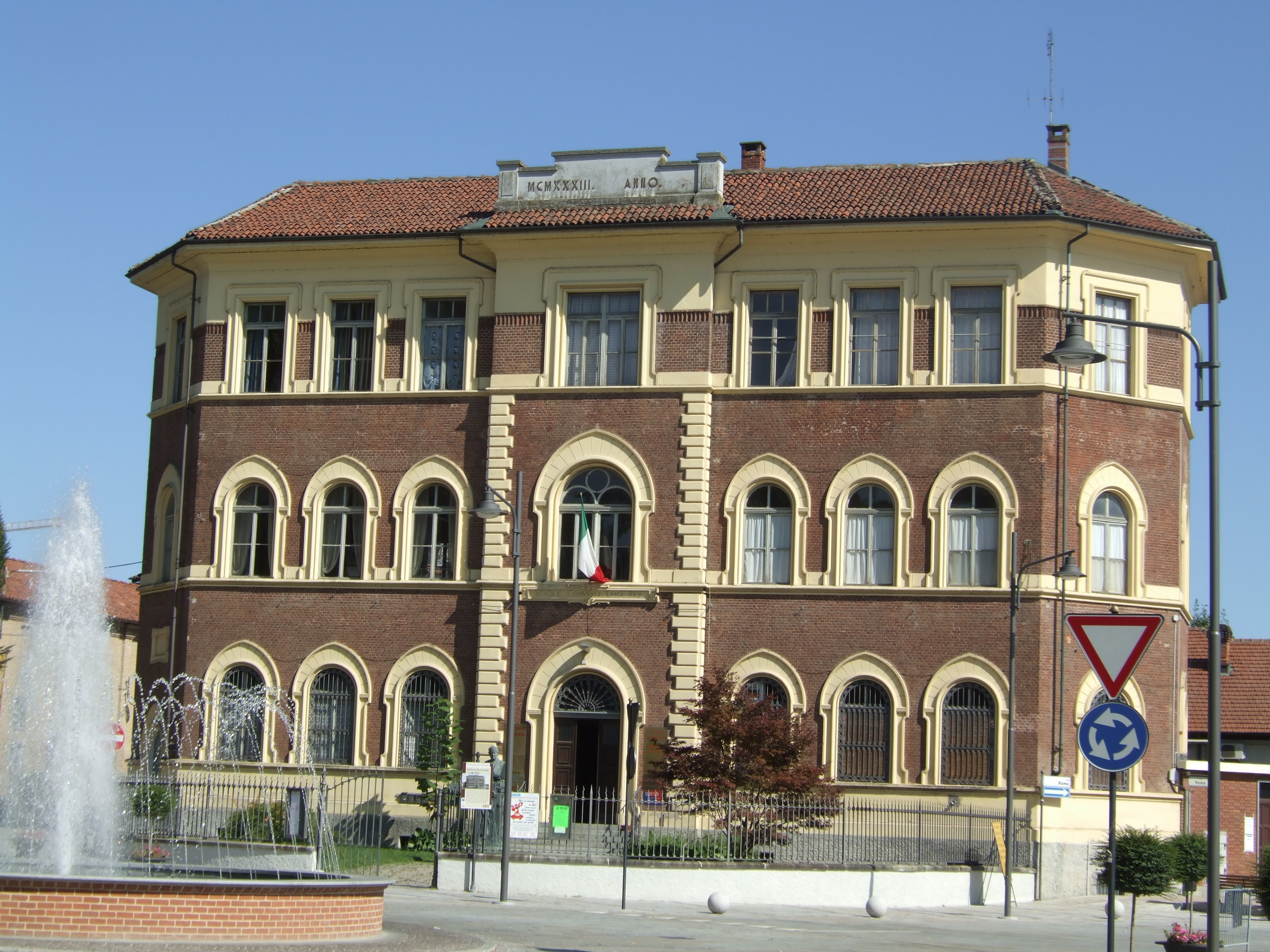 Elementary school Mario Rey at Vinovo (Italy)